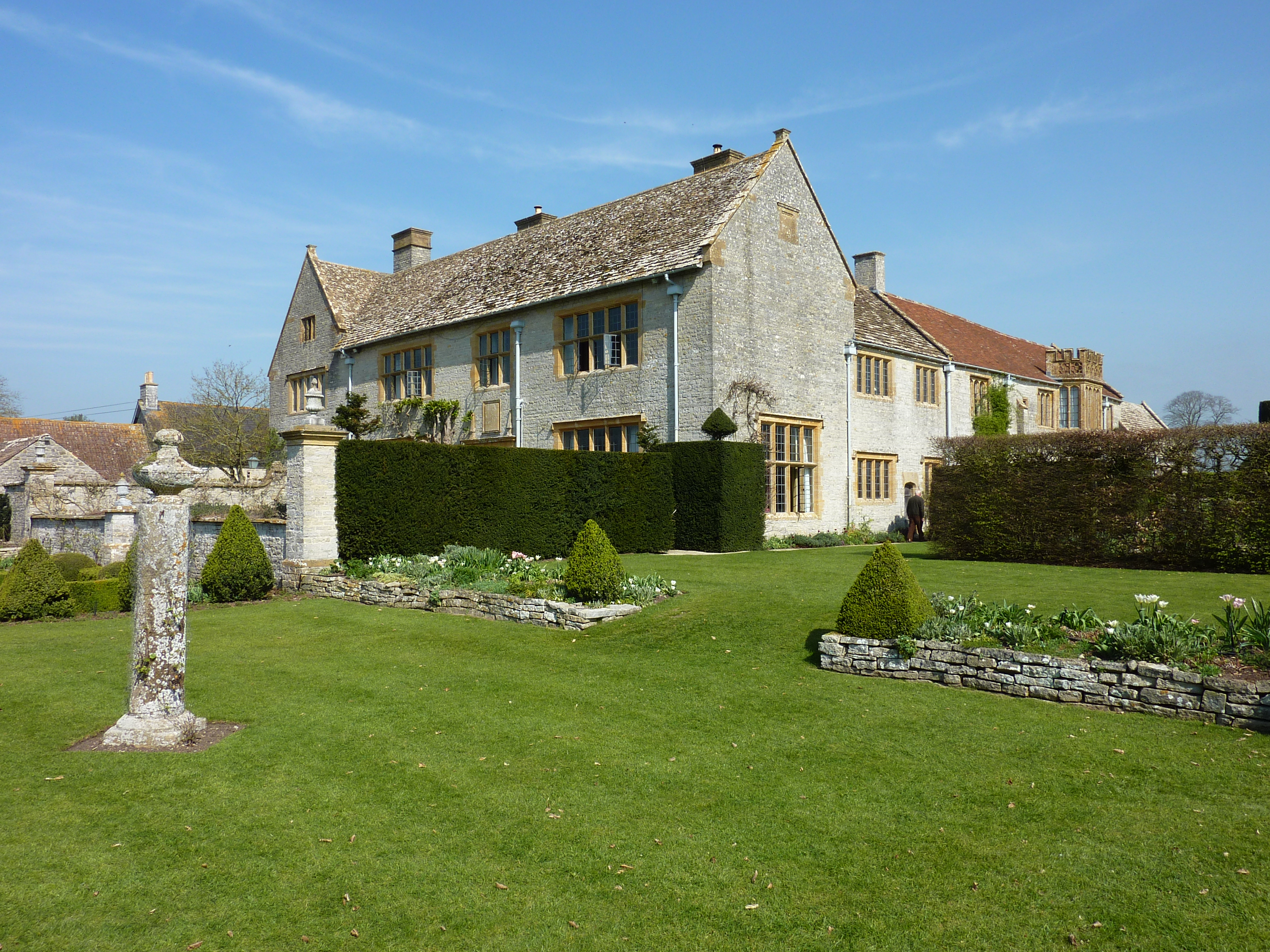 A view from south-west of the manor house at Lytes Cary in Somerset